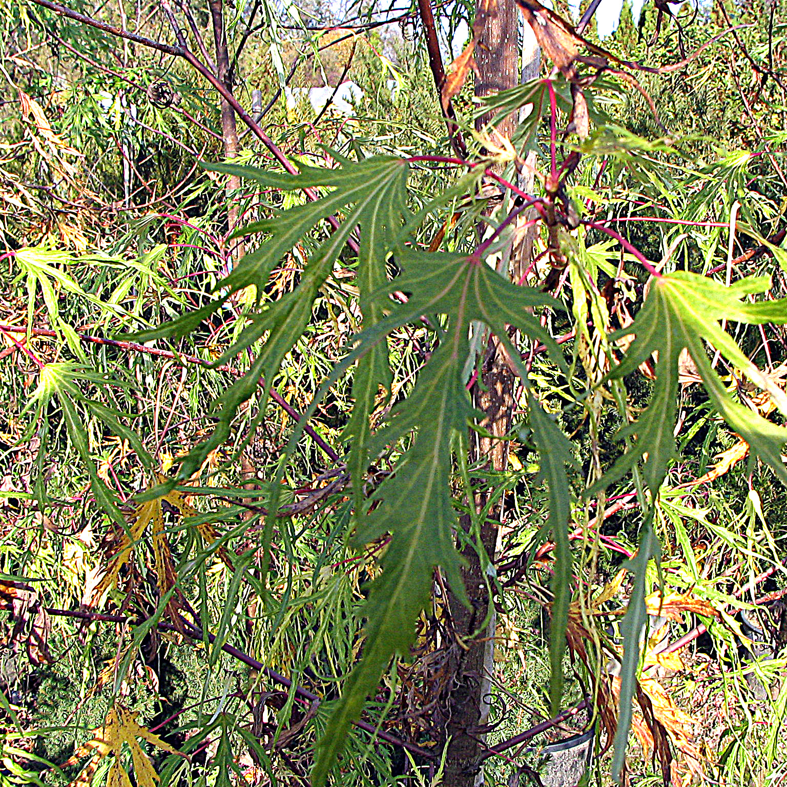 Acer saccharinum 'Born’'s Gracious' in Vasic Nursery Kosjeric, Serbia